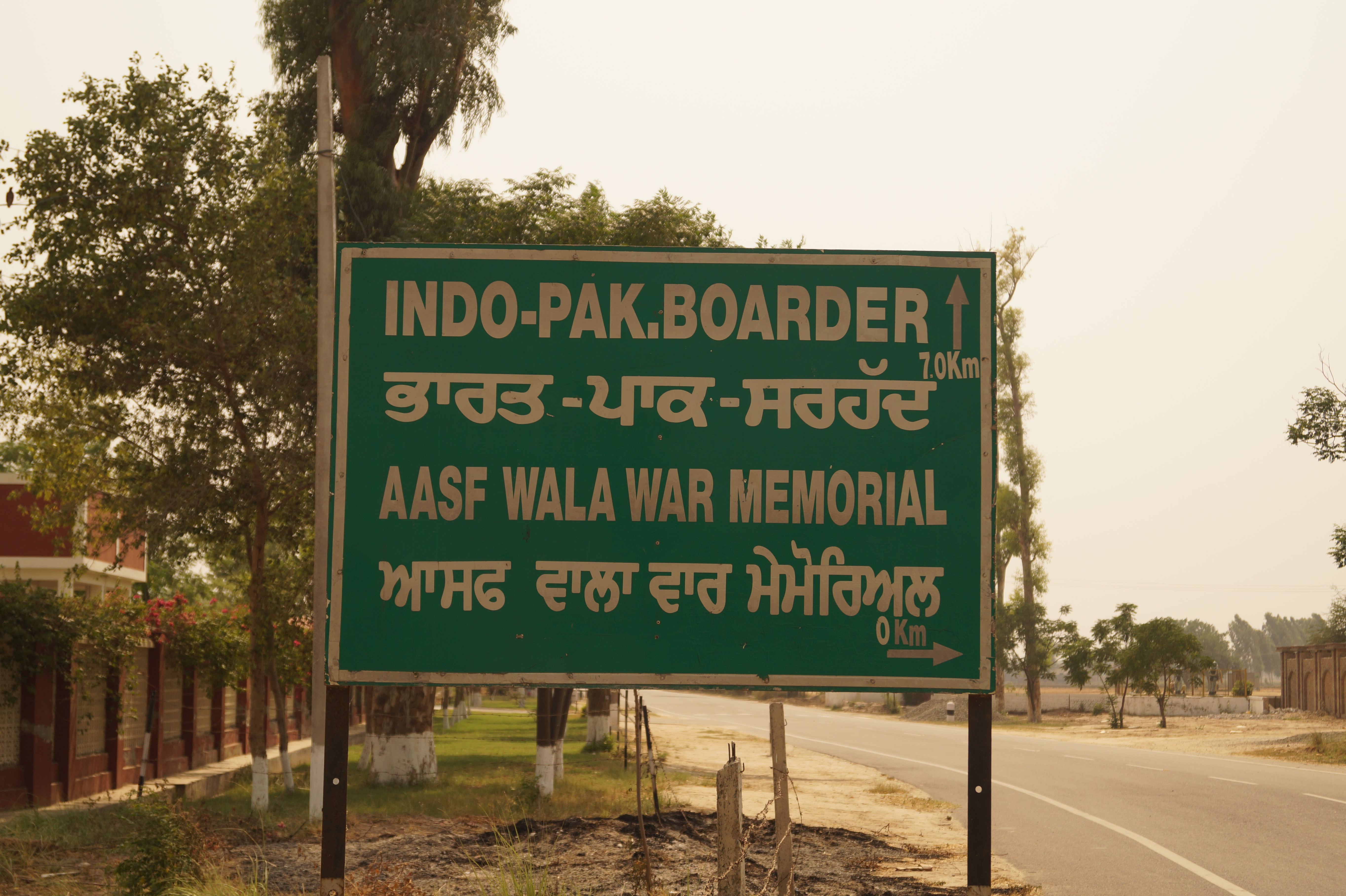 War Memorial Aasf Wala, Fazilka